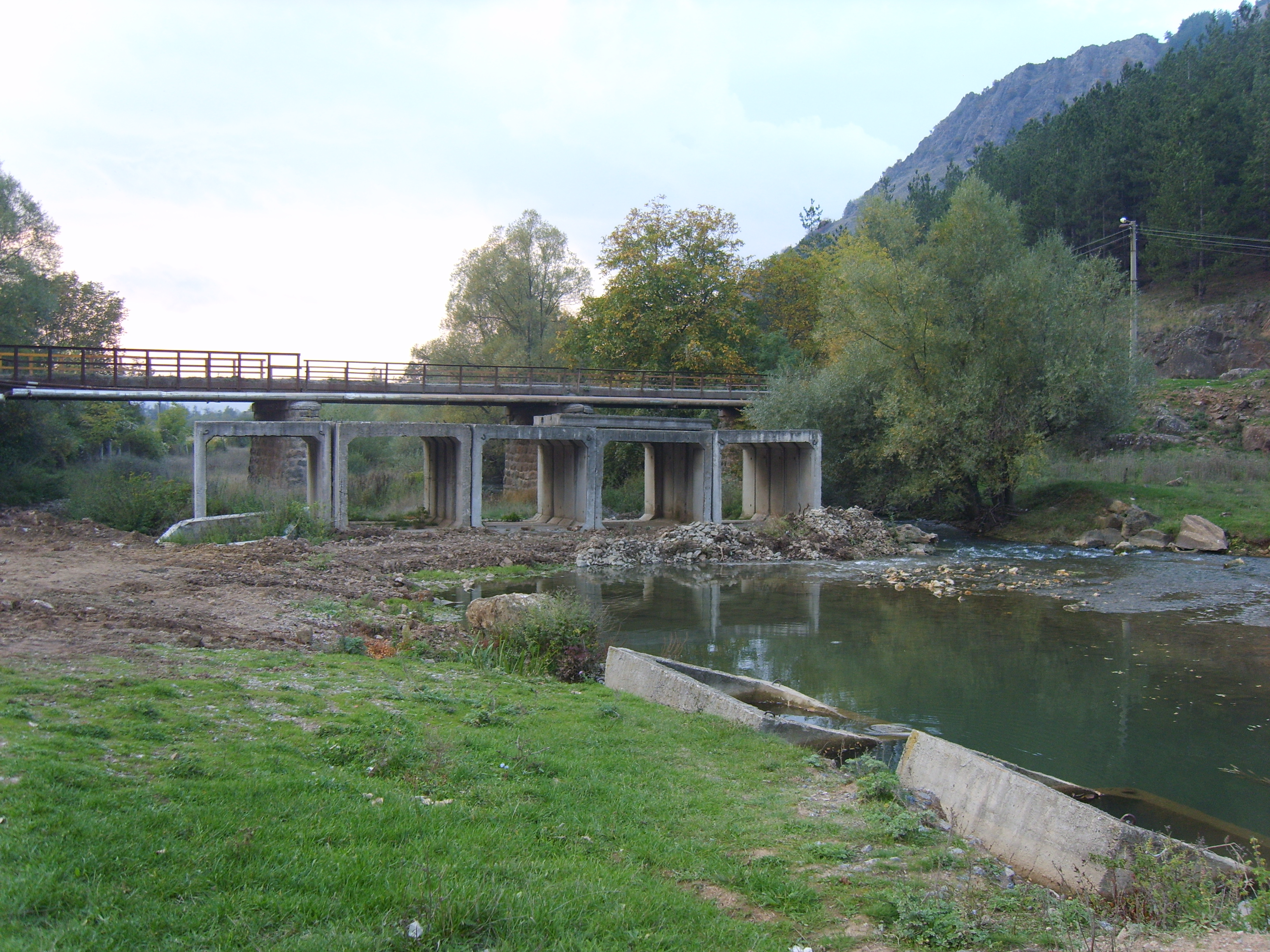 Nishava River near the village of Kalotina, Bulgaria